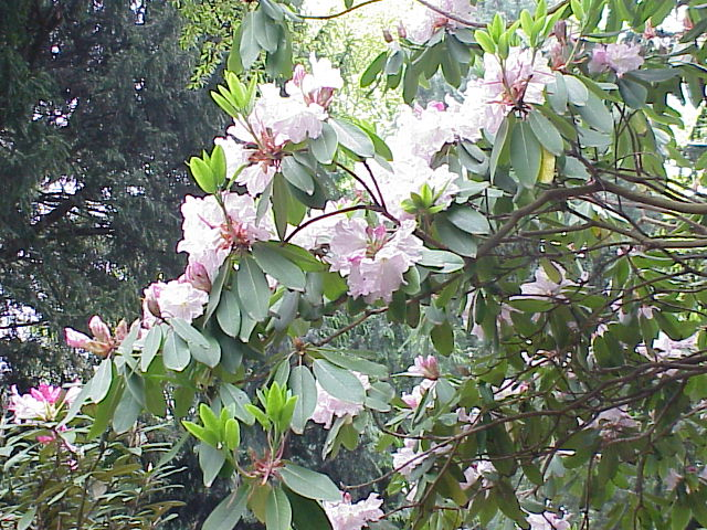 Species: Rhododendron fortunei Family: Ericaceae Image No. 1